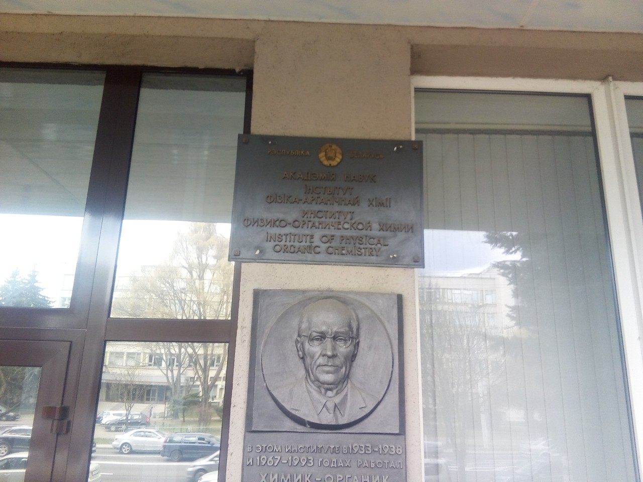 Plaque on the Institute of Physical Organic Chemistry of the National Academy of Sciences of Belarus (13 Surhanava Street, Minsk; 20th of April, 2019)